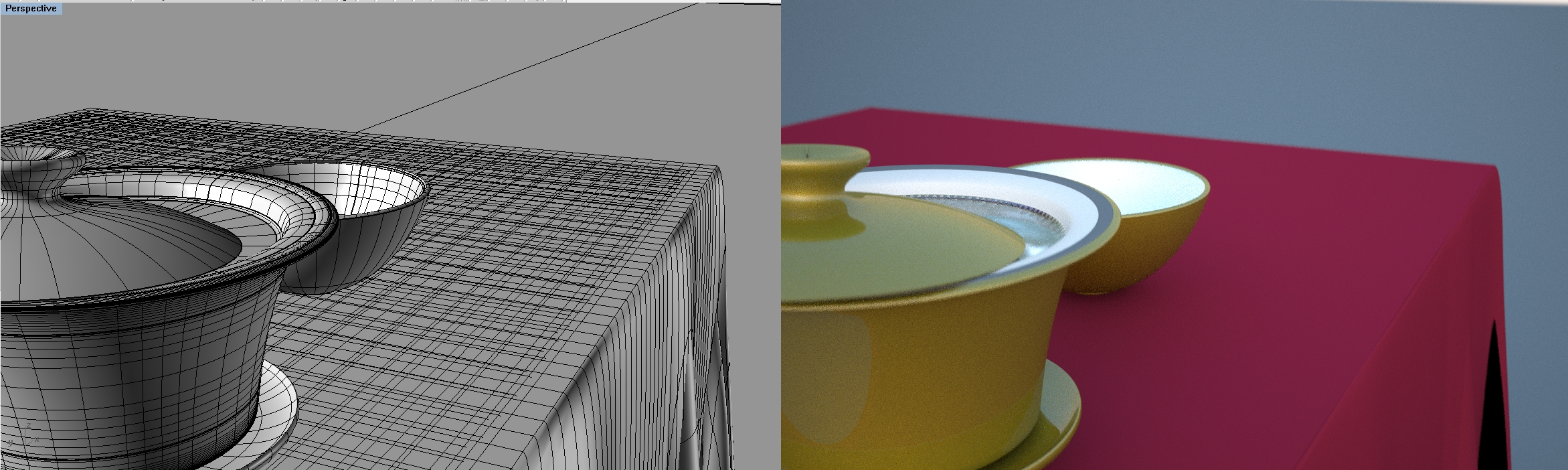 3D model and it rendre